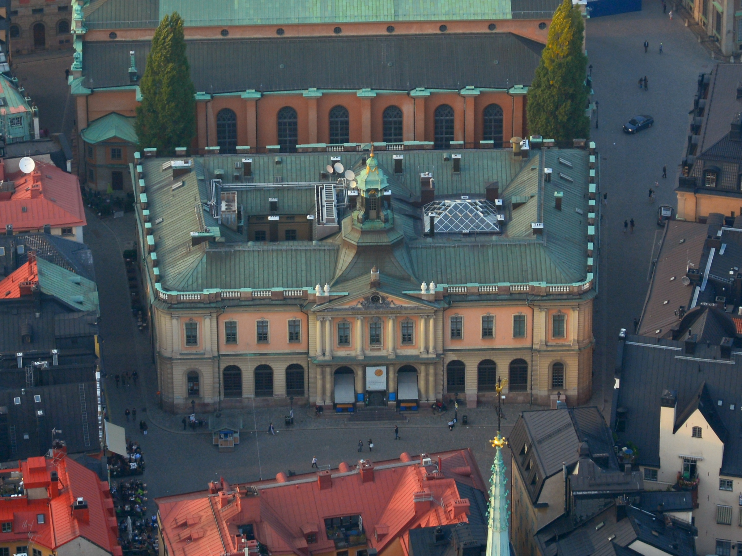 Nobel Museum in Gamla stan, Stockholm, Sweden.